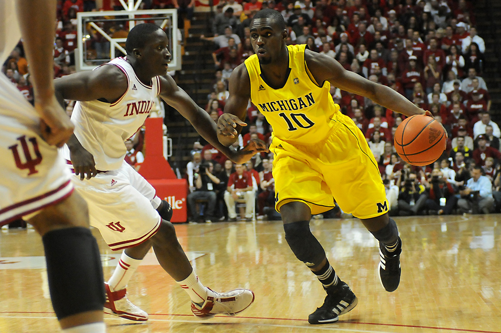 Tim Hardaway, Jr. drives against Victor Oladipo